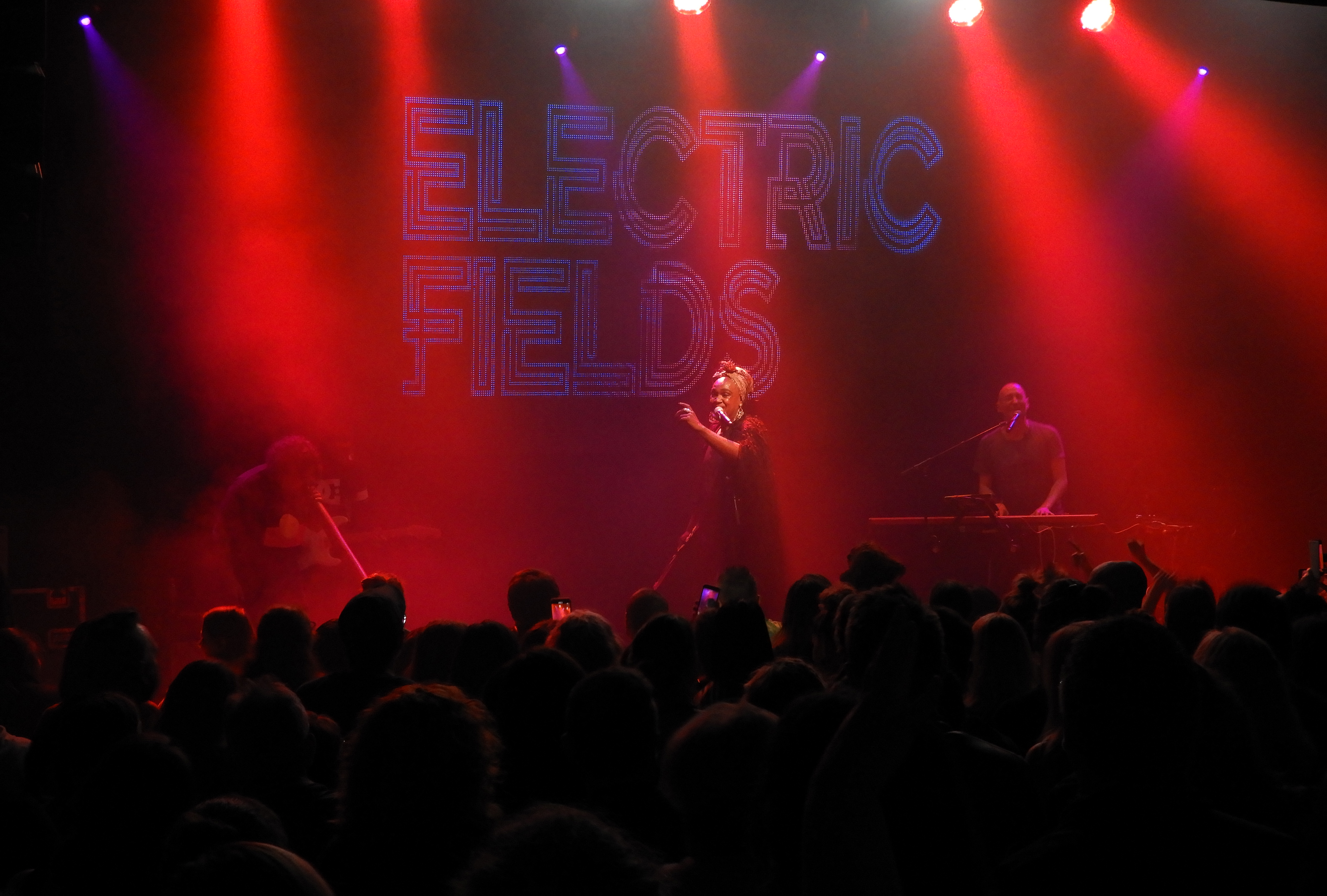 Electric Fields performs at the Lion Arts Factory in Adelaide, South Australia.